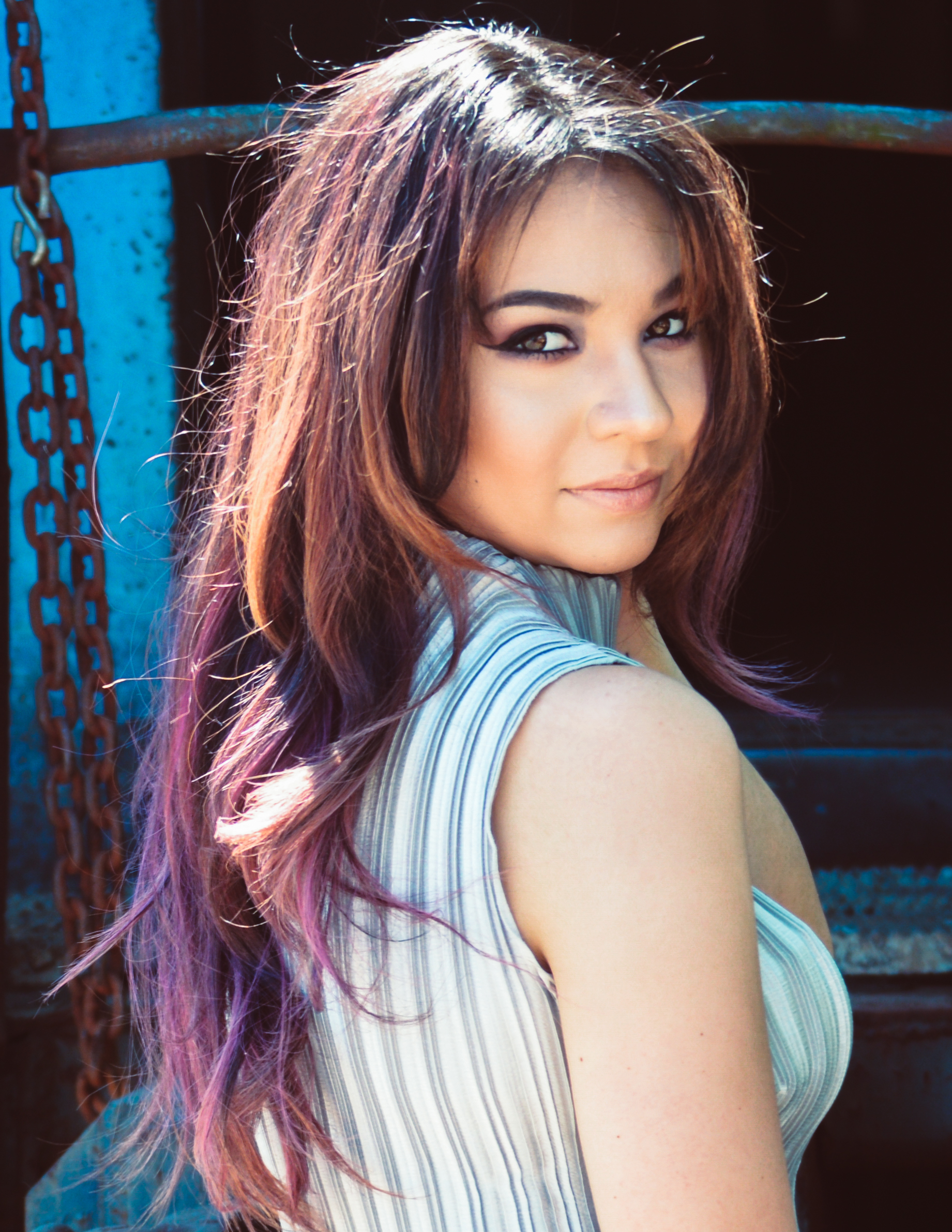 Shanaya Fastje portrait